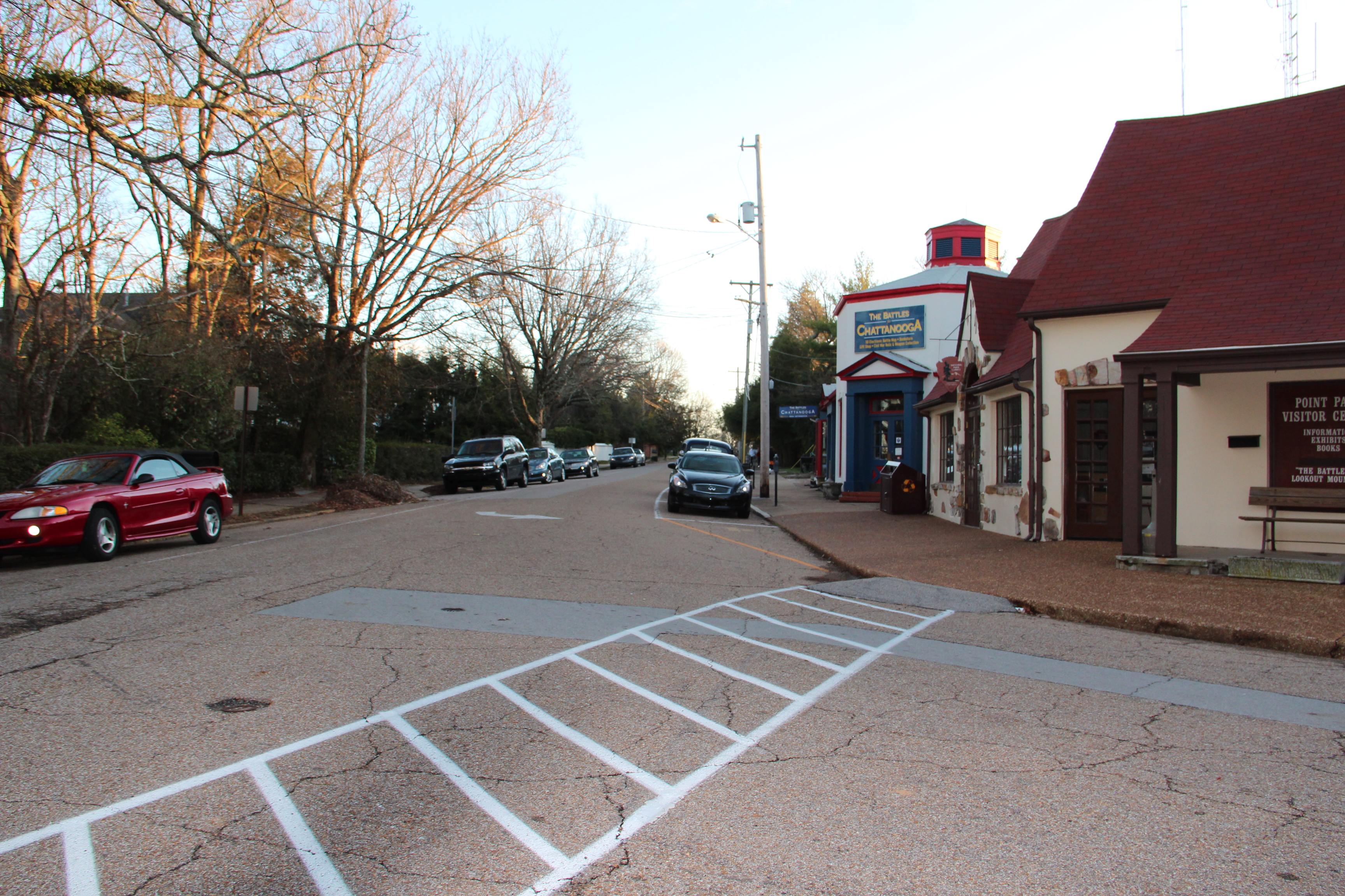 Lookout Mountain, Tennessee, right outside of Point Park.